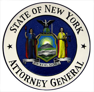 Seal of the Attorney General of New York.